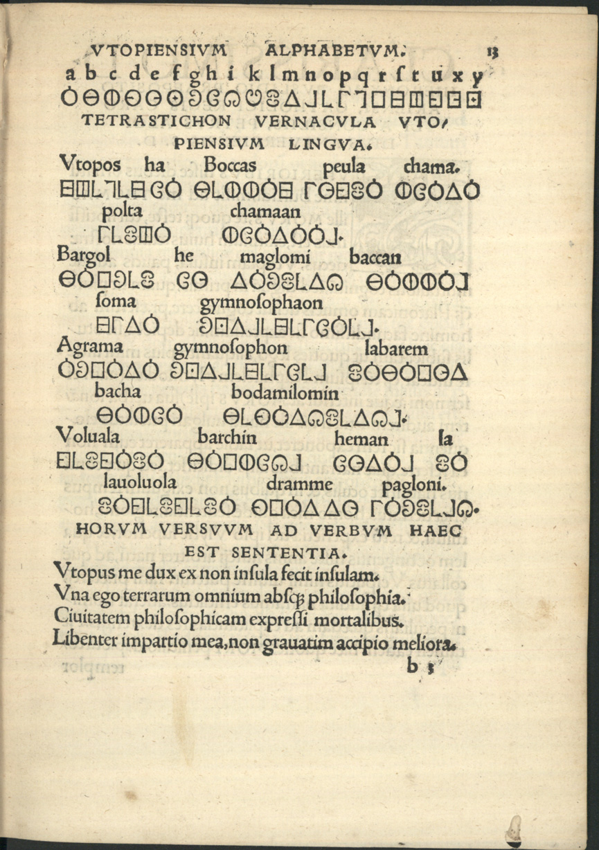 This is the "Utopiensium Alphabetum" as it appears in Thomas More's 'Utopia' printed by Johannes Frobenius in November 1518 in Basel. This copy is owned by the Biblioteca Nacional de Portugal.